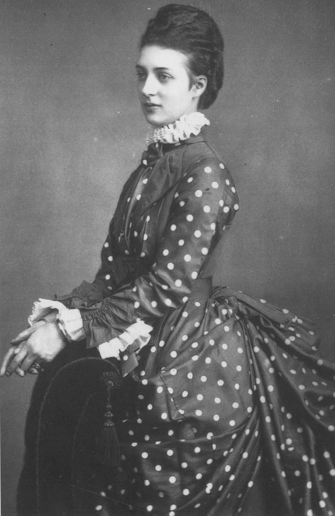 Alexandra of Denmark - Princess of Wales